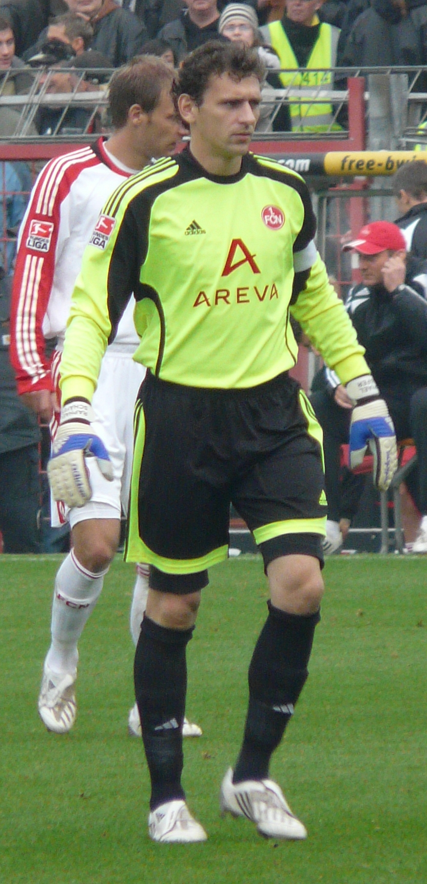 German goalkeeper Raphael Schäfer.